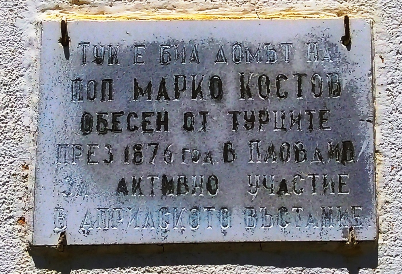 Memorial plaque near the home of bulgarian revolutionary pop Marko Kostov